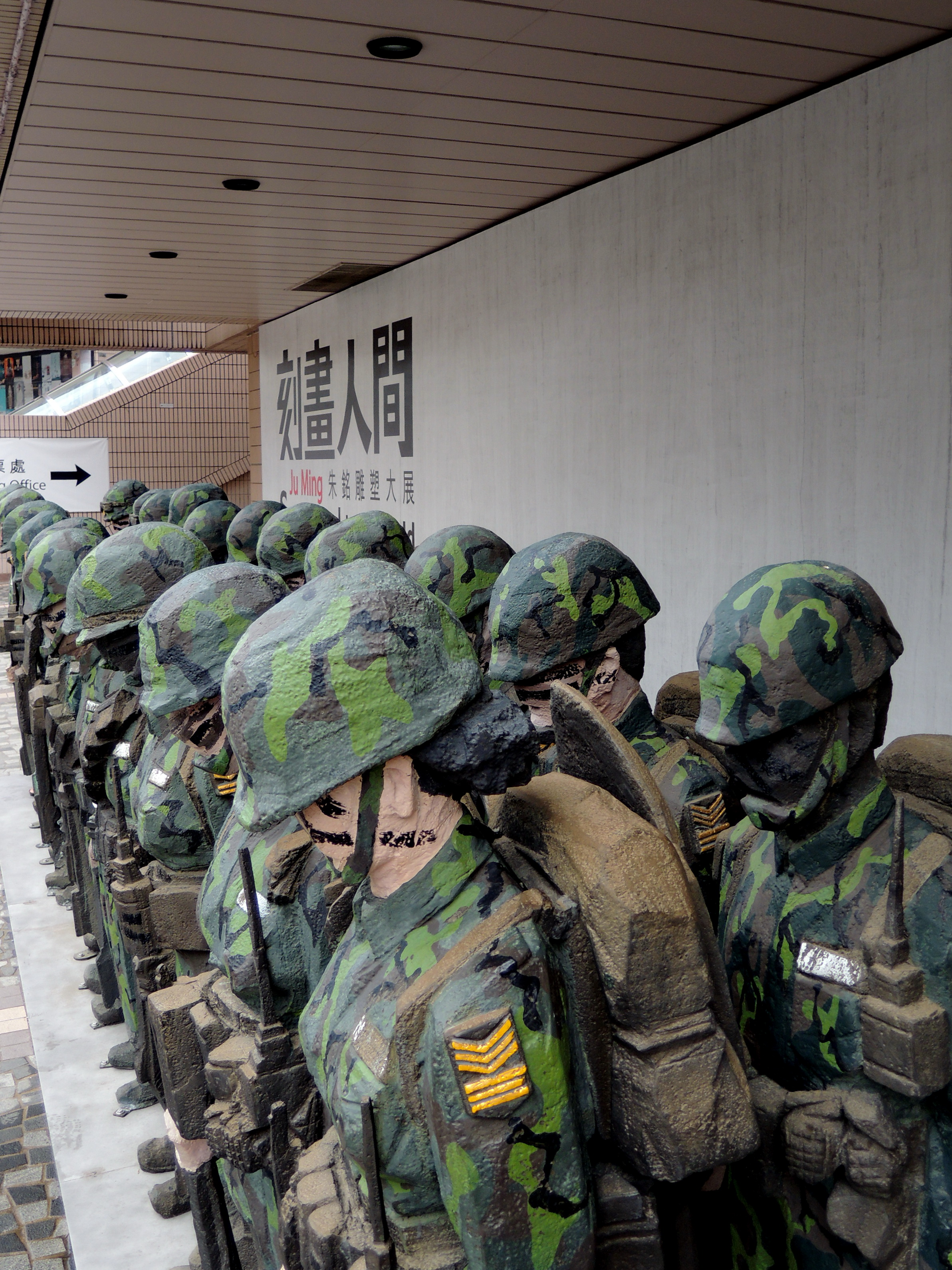 Ju Ming — Sculpting the Living World, Hong Kong Museum of Art (Living World Series - Armed Forces ) Hong Kong.